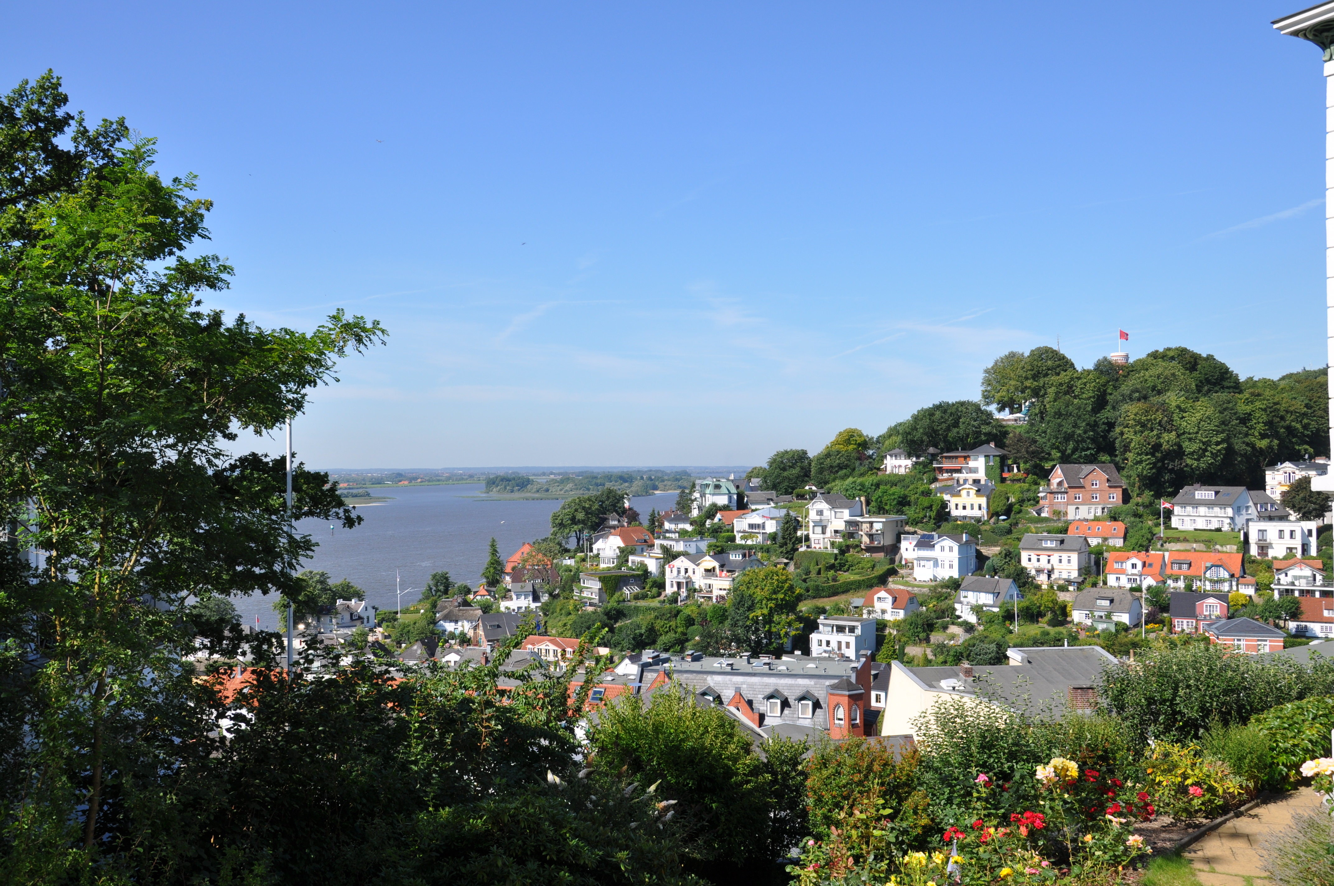 This photo is showing Hamburg-Blankenese